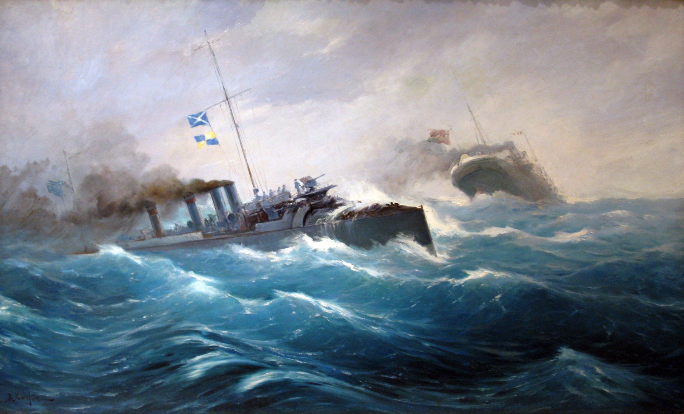 Vasileios Chatzis (1870-1915) Ship Inspection, oil on canvas. Thyella class destroyer